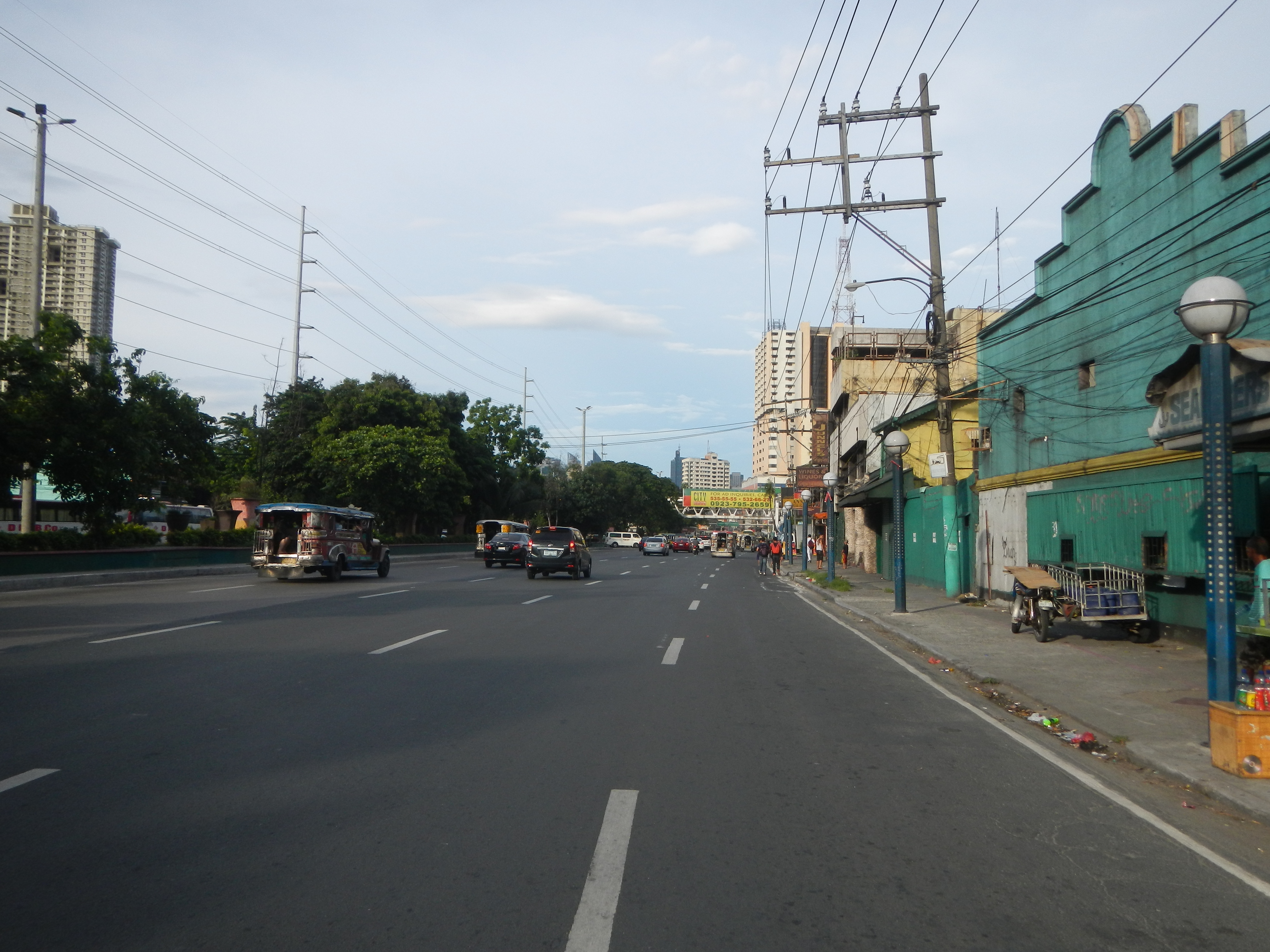 Gil Puyat Avenue (formerly Buendia Avenue to Tramo Street from Gil Puyat LRT Station Taft_Avenue, Harrison Avenue Francis Burton Harrison Avenue, known as F.B. Harrison Avenue , or F.B. Harrison Street corner in the List of barangays of Metro Manila Legislative district of Pasay Pasay City List of barangays of Metro Manila Barangays 10, 24, 25, 26, 27 and 28, Zone 4, 32, 38 and 40, Zone 5, 51 and 52, Zone 7, 69, Zone 8, 70, 71 and 72, 85, 86, 87 and 88, Zone 9, Legislative district of Pasay City).